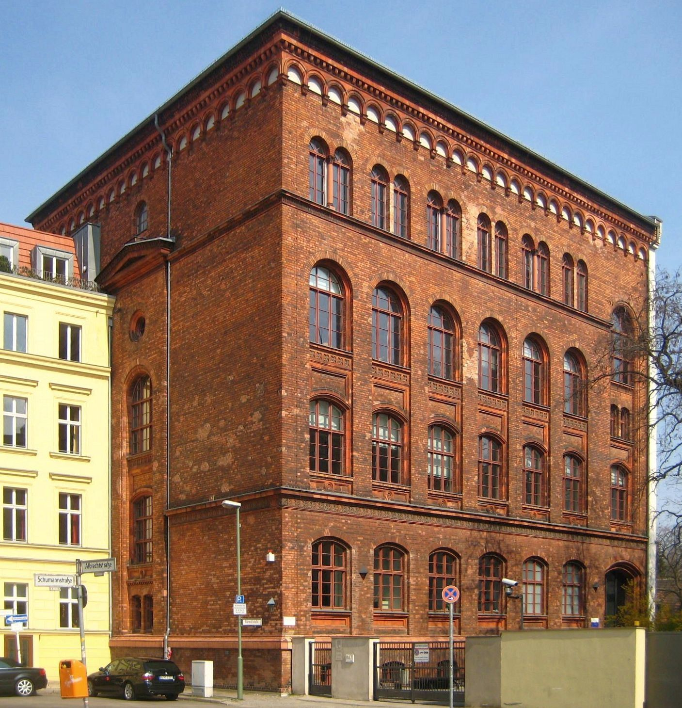 The former Friedrich-Realschule at Albrechtstraße No. 27 in Berlin-Mitte. The building was constructed from 1873 to 1974 to a design by Hermann Blankenstein. It has been designated as a historic landmark.